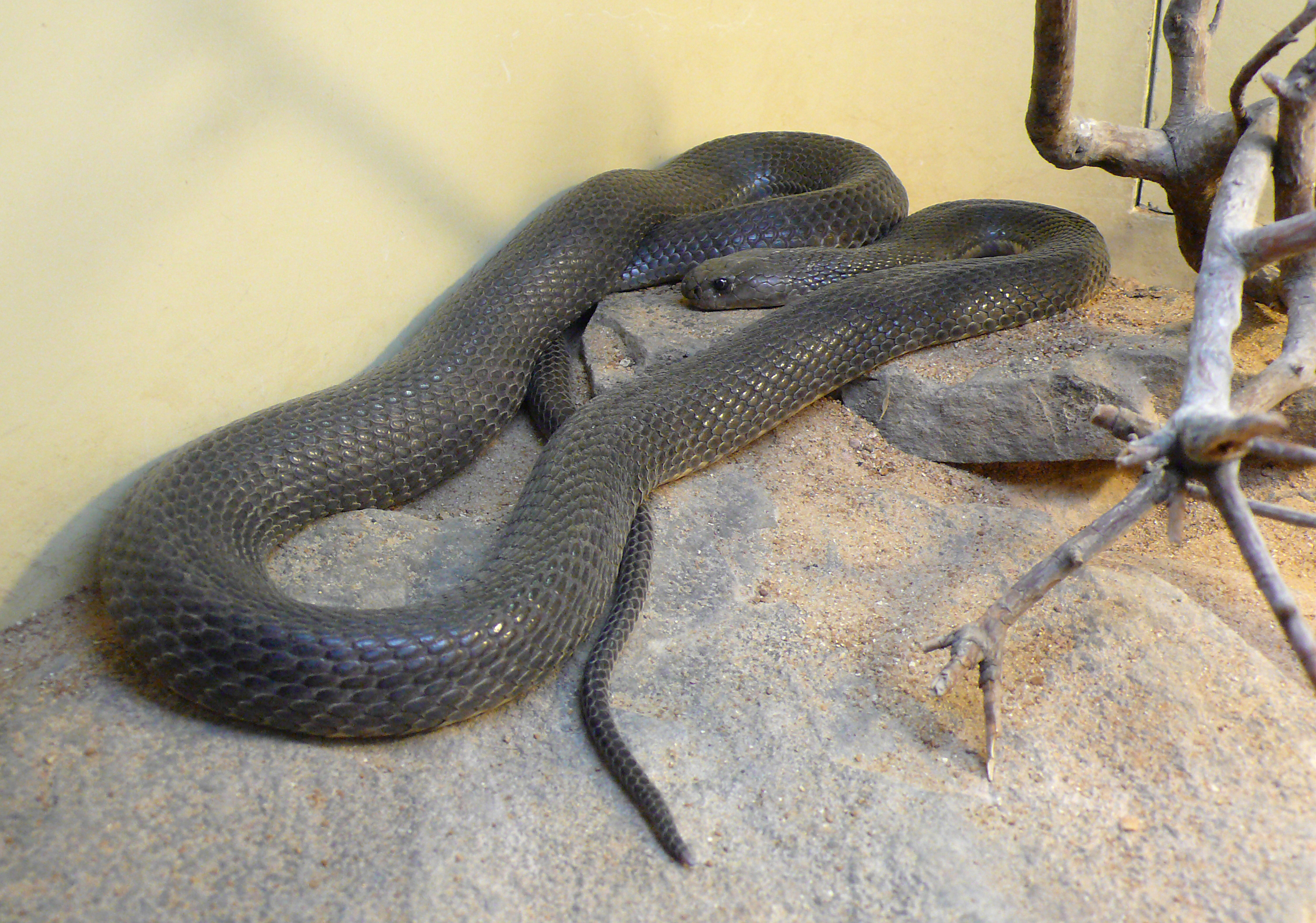 Caspian cobra (Naja oxiana)